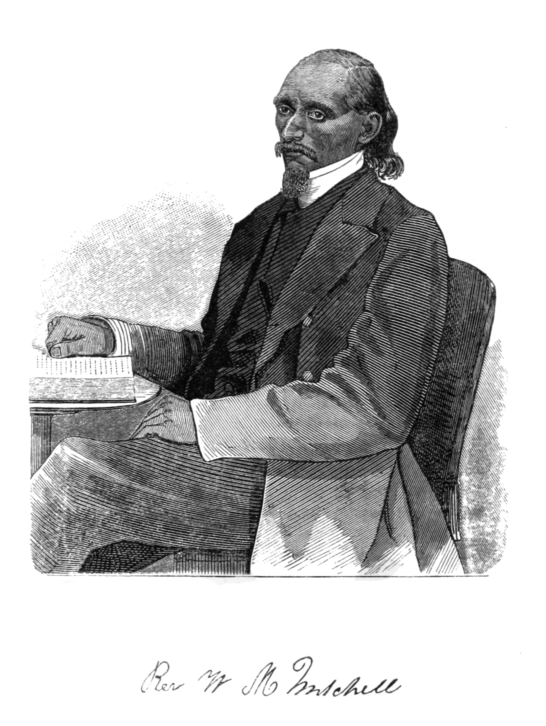 Rev. W. Mitchell. Scan from book The Under-Ground Railroad